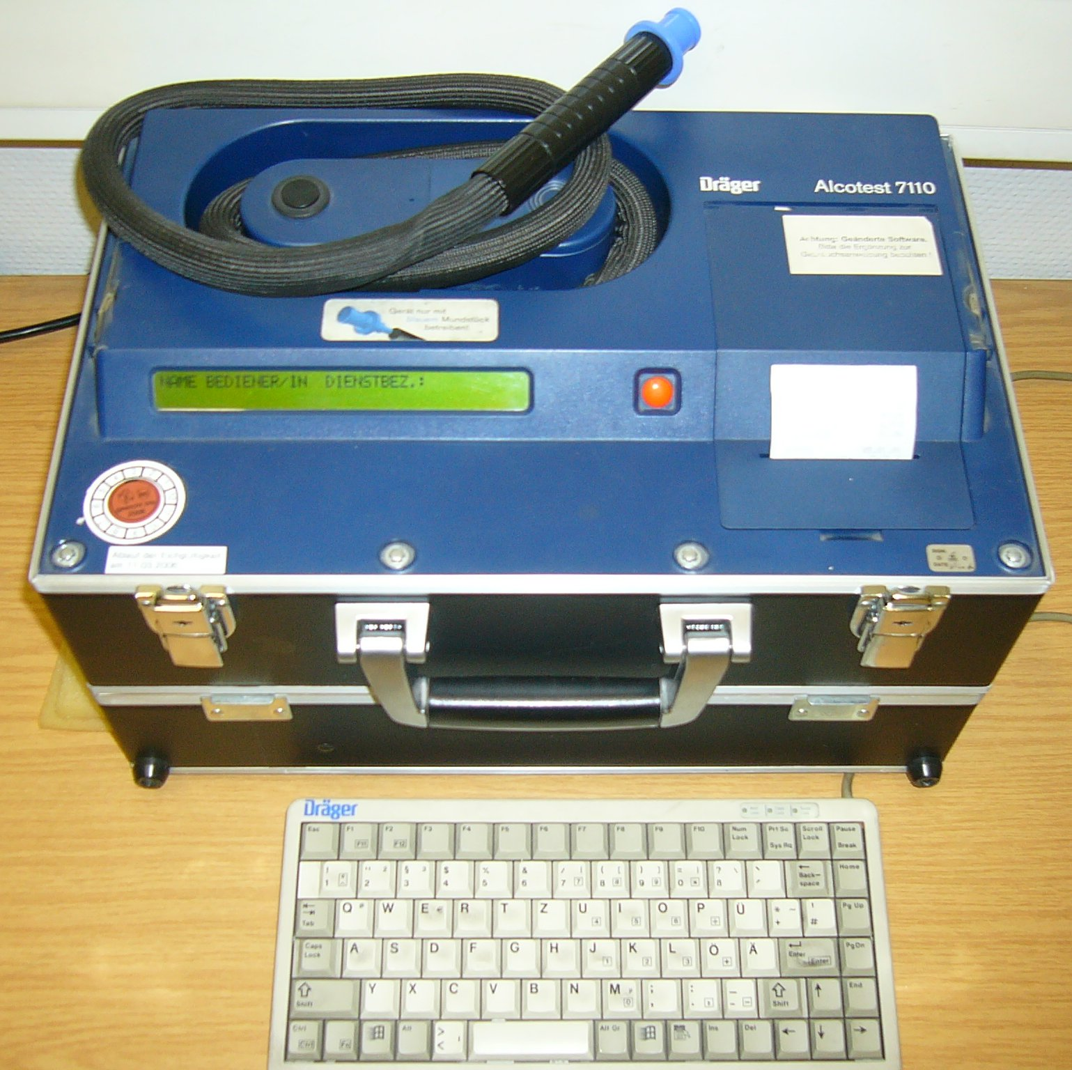 Breathalyzer Dräger[1] Alcotest 7110 "Evidential"